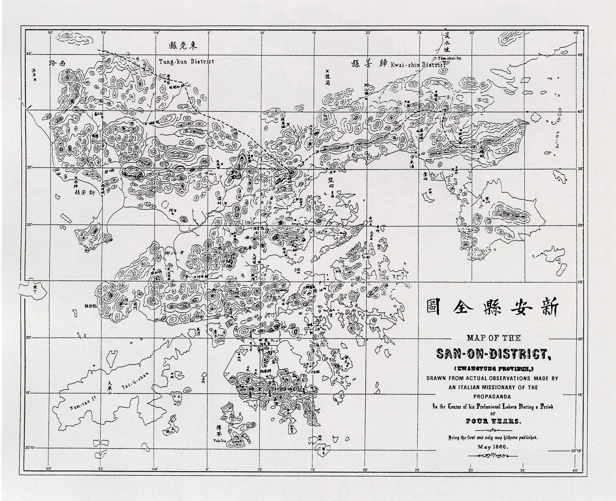 Map of San-On District (Bao'an County), now modern day Shenzhen and Hong Kong (in Kwangtung (Guangdong) Province, ), which created by Italian missionary Simeon Volonteri in 1866.